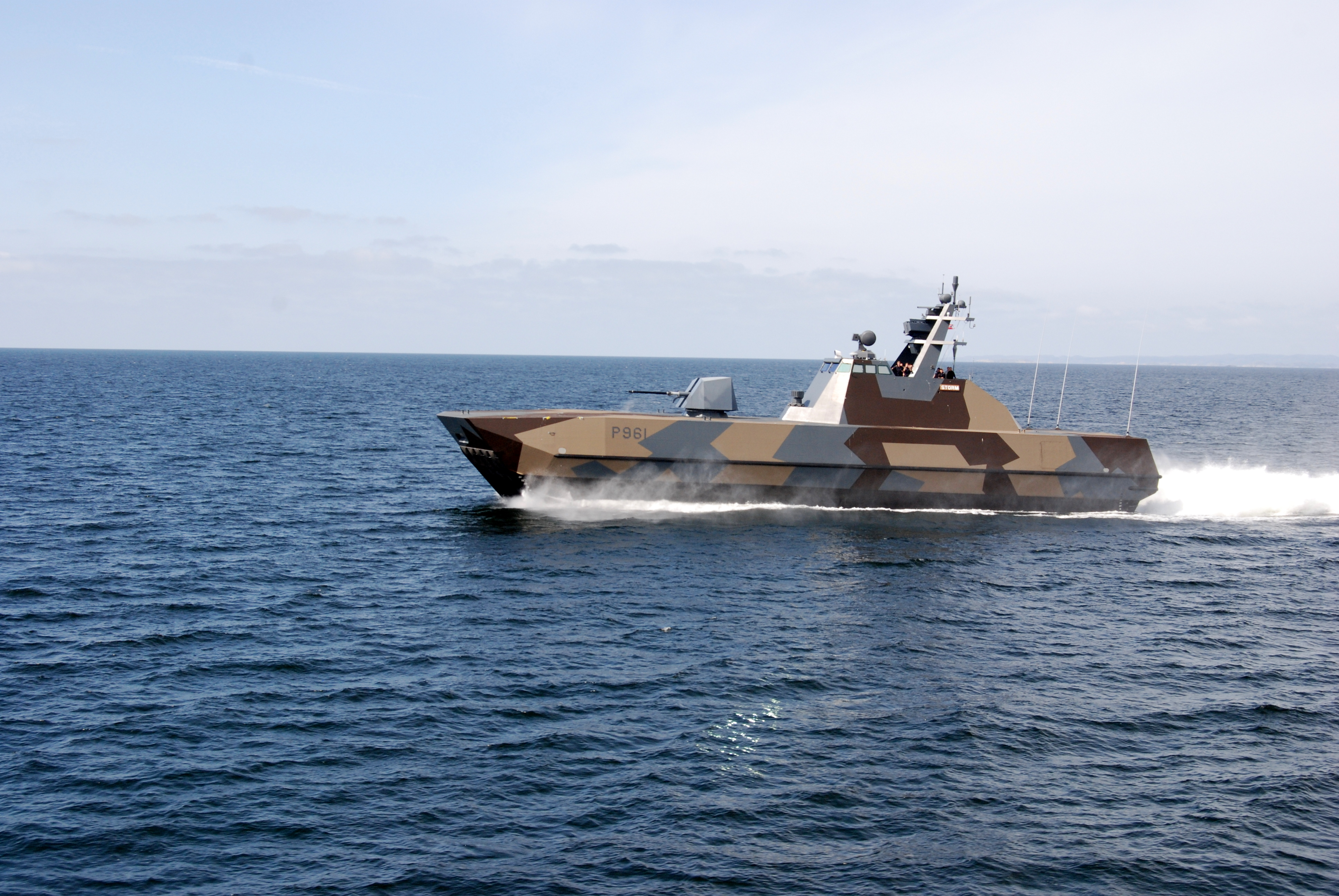 The following is the author's description of the photograph quoted directly from the photograph's Flickr page. "Norwegian Navy Patrol boat. "